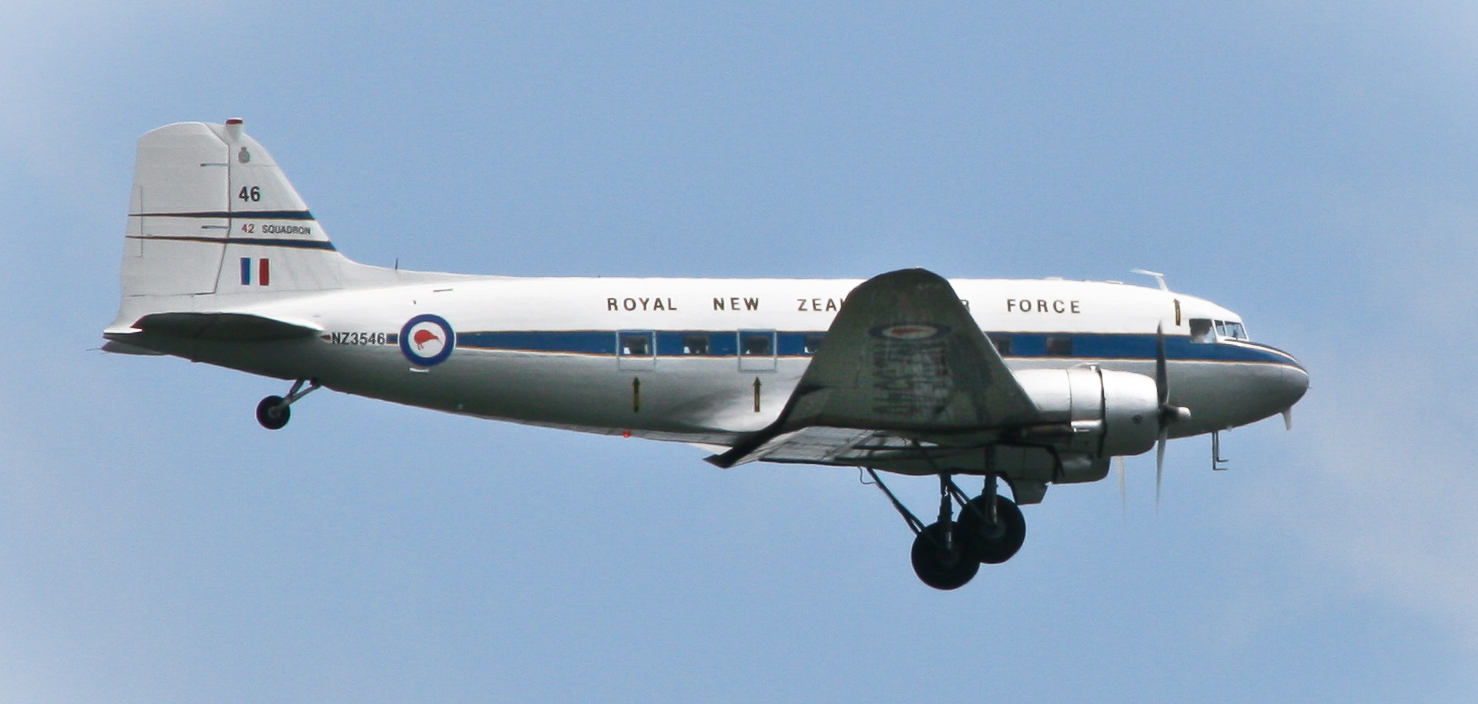 FLYDC3's New Zealand based DC3 wearing a RNZAF VIP livery